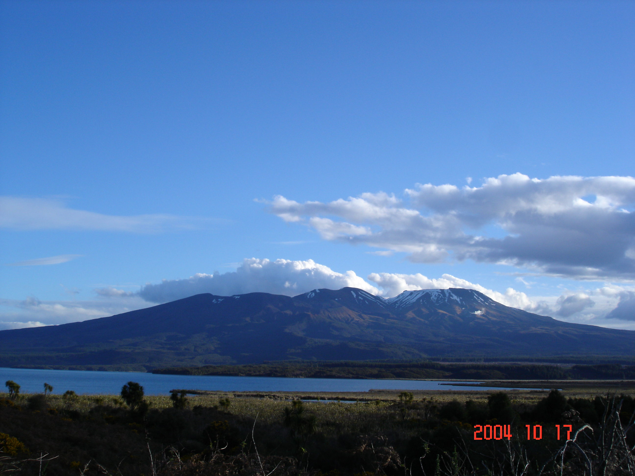 Tongariro National Park (New Zealand)